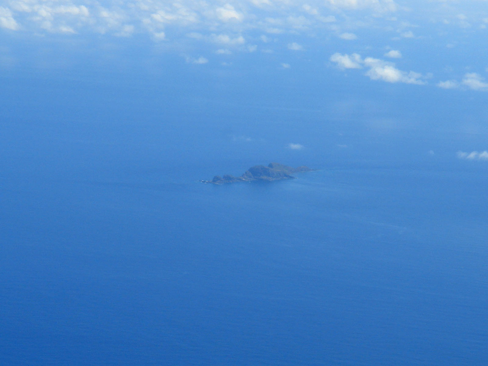 Nakanokamishima, Taketomi Town, Yaeyama District, Okinawa, Japan